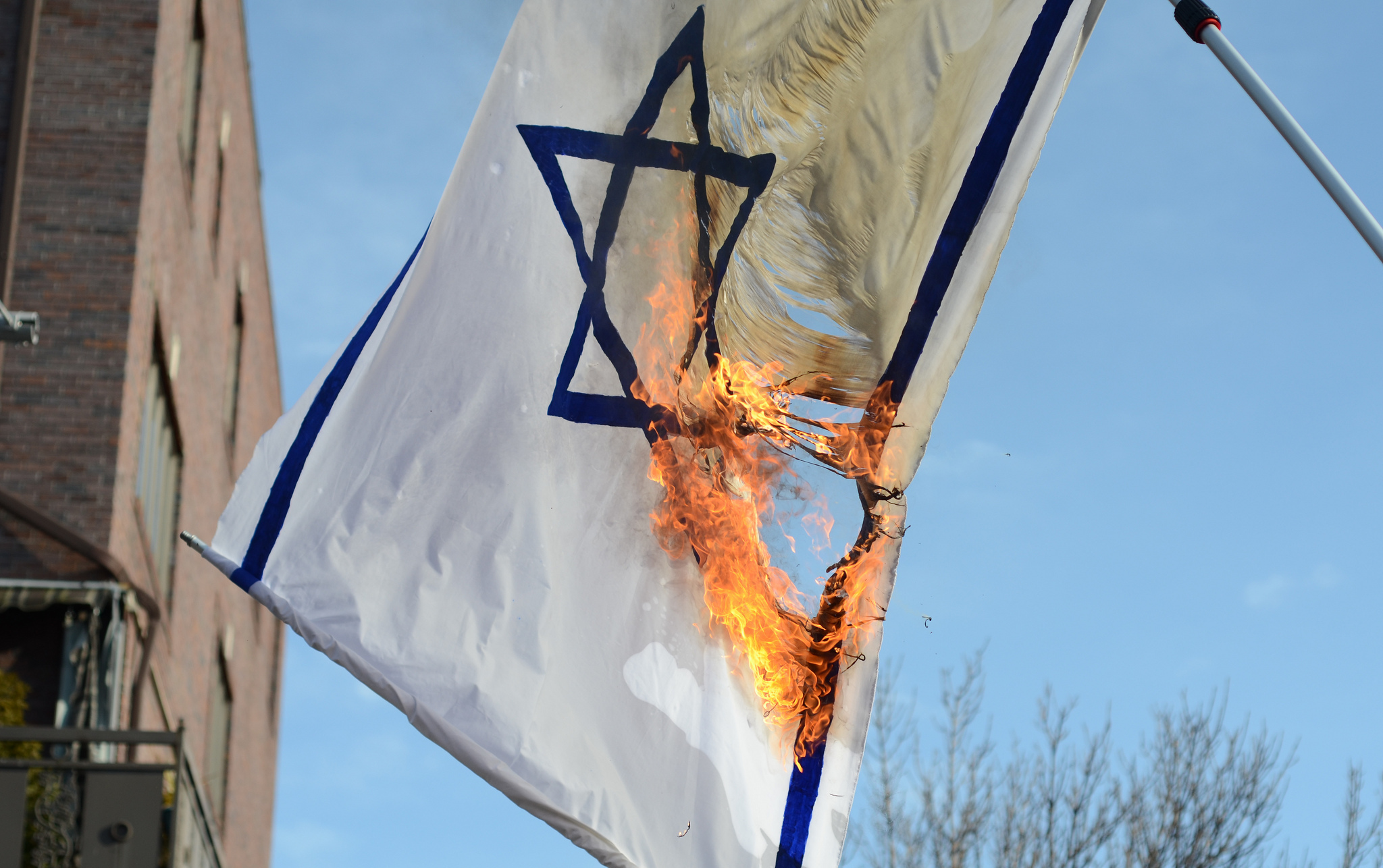 Israeli flag burned by Neturei Karta in Brooklyn, New York City